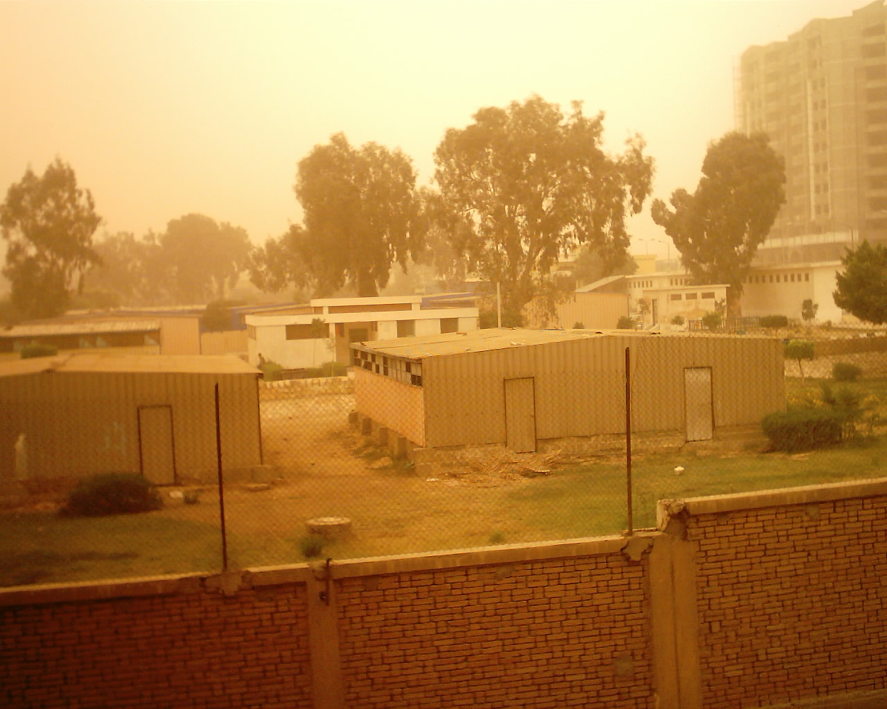 Khamsin in Egypt during the year 2007